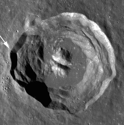 Bürg crater on Wide Angle Camera (WAC M11966881ME) view from the LRO team at NASA/GSFC/Arizona State University.